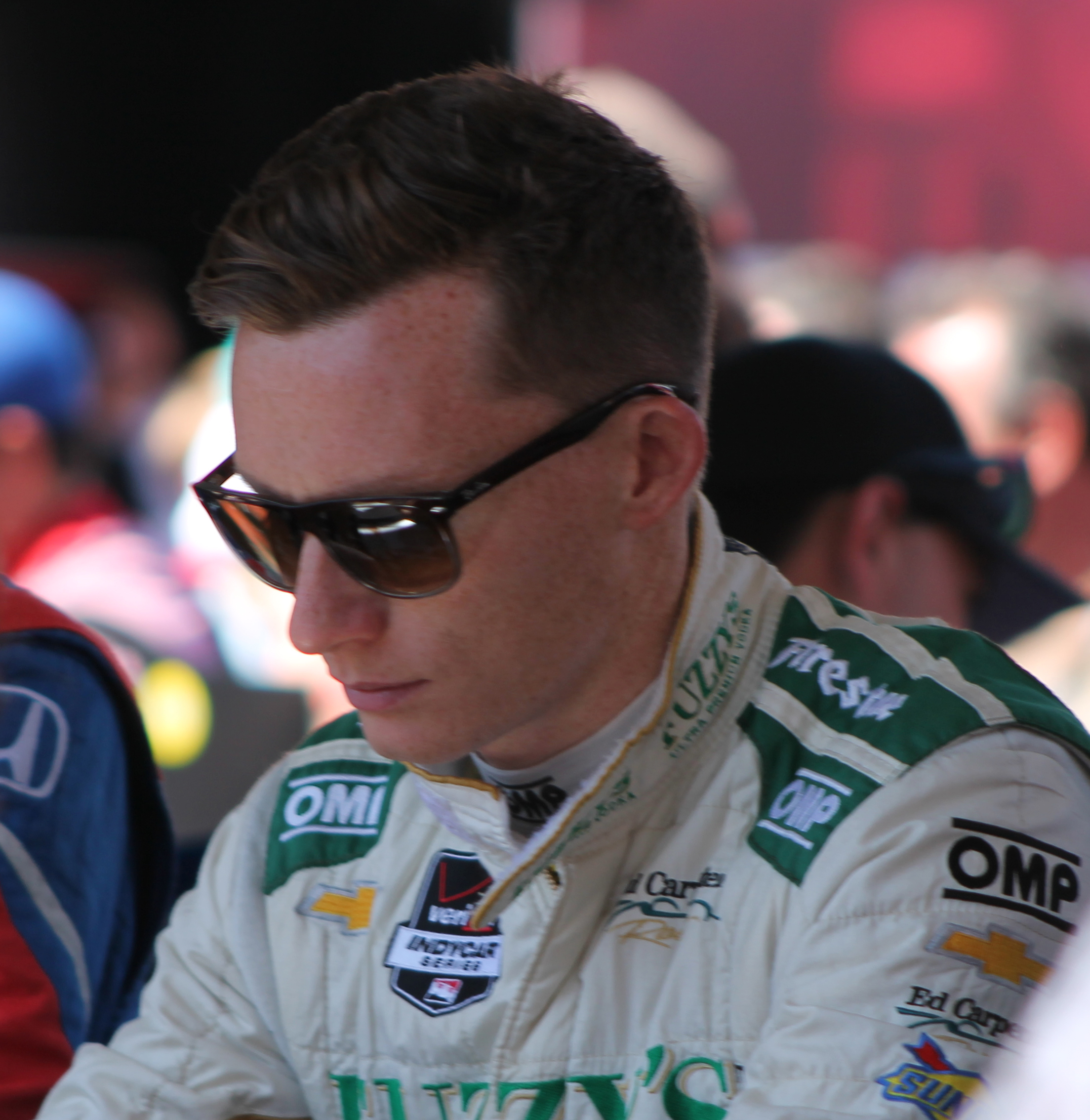 Mike Conway at Sonoma Raceway, Sonoma, CA in August 2014